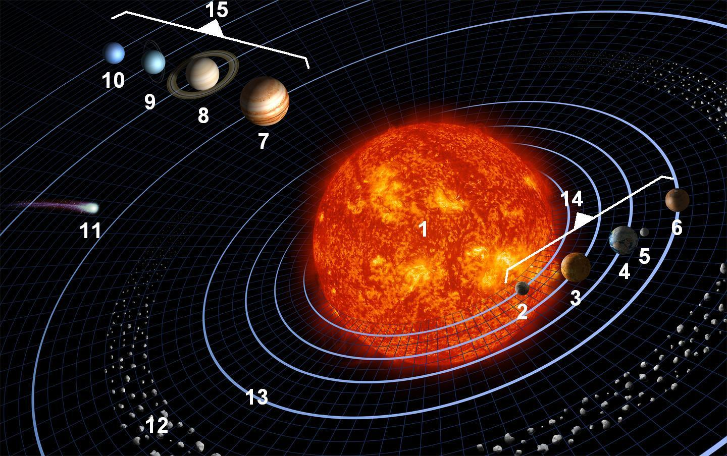 The Solar System, (not to scale - actually very very far from the real scale - creating a scale image of the solar system with detailed representations of all its major bodies would not likely be feasible - see solar system model ) showing the Sun, Inner Planets, Asteroid Belt, Outer Planets, and a comet. 1= The Sun 2= Mercury 3= Venus 4= Earth 5= Moon 6= Mars 7= Jupiter 8= Saturn 9= Uranus 10= Neptune 11= Comet 12= Asteroid belt 13= Orbit 14= Terrestrial planets or Inner planets 15= Outer planets